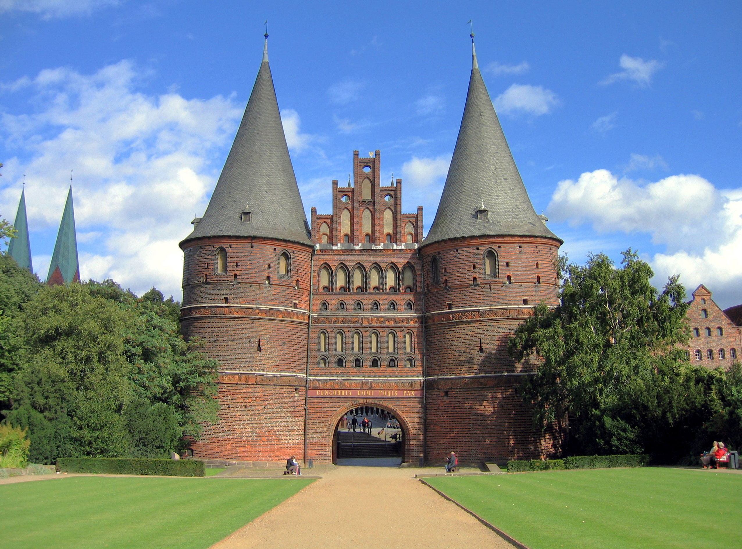 The Holstentor in Lübeck, Germany.